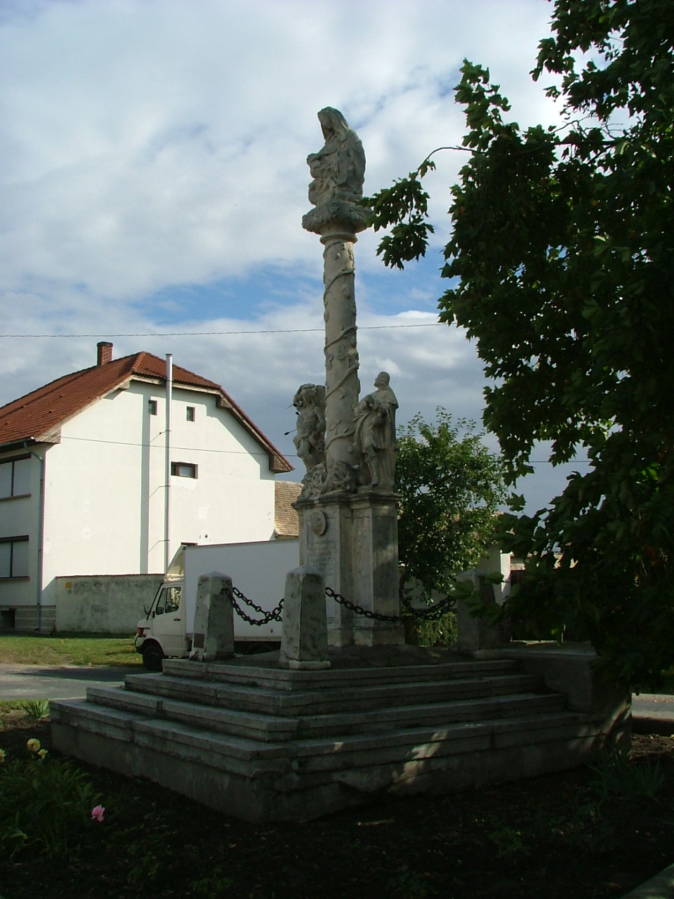 Hegykő, Plaque memorial This is a photo of a monument in Hungary, Identifier: 4446